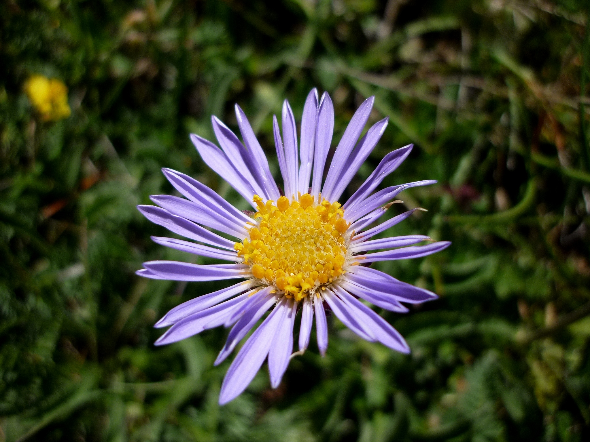 Aster alpinus. In the Cadinell (Josa i Tuixèn-Alt Urgell-Catalunya). To 2.100 m. altitude.